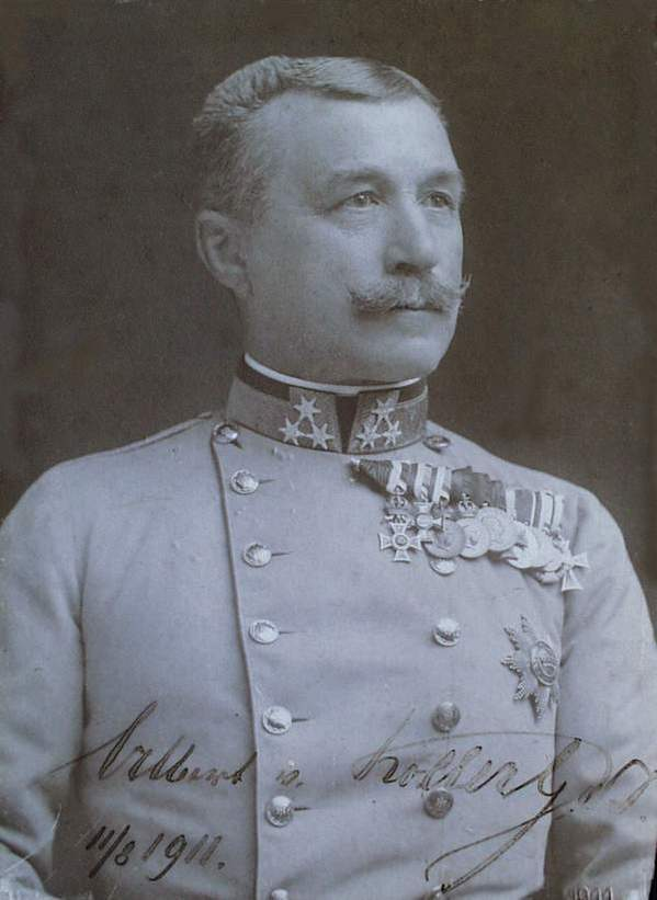 Austria-Hungarian General of the Infantry Albert von Koller